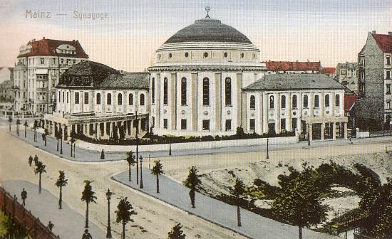 Postcard of the Great synagogue of Mayence (Mainz) in Germany, built in 1912, destroyed by the nazis during Kristal Nacht in 1938.